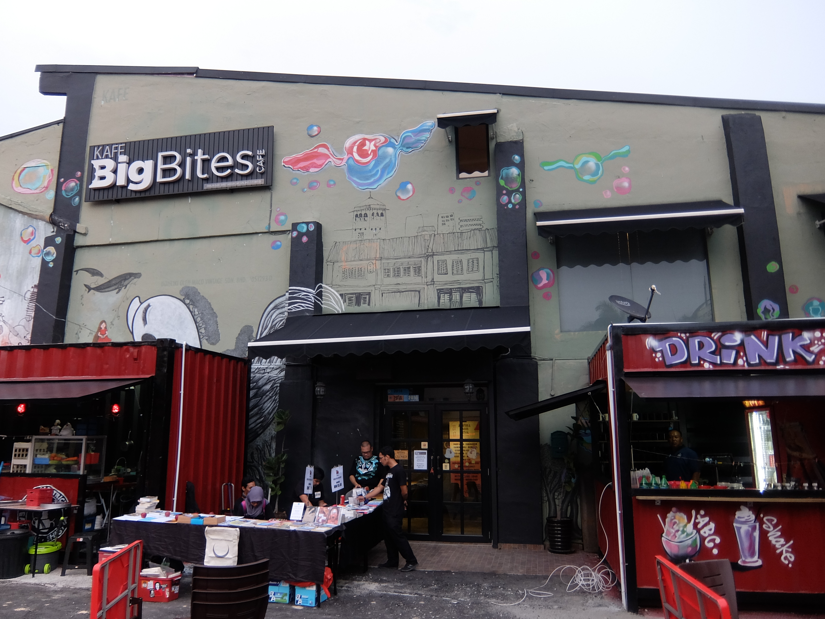 Big Bites Cafe, Johor Bahru, Johor, Malaysia